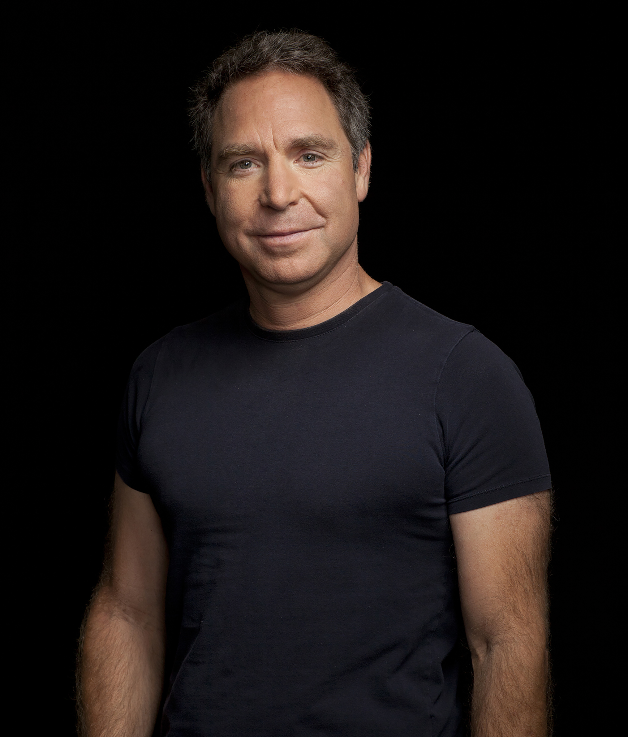 The file is a photo of Gregory Thane Wyler for use on this Wiki page